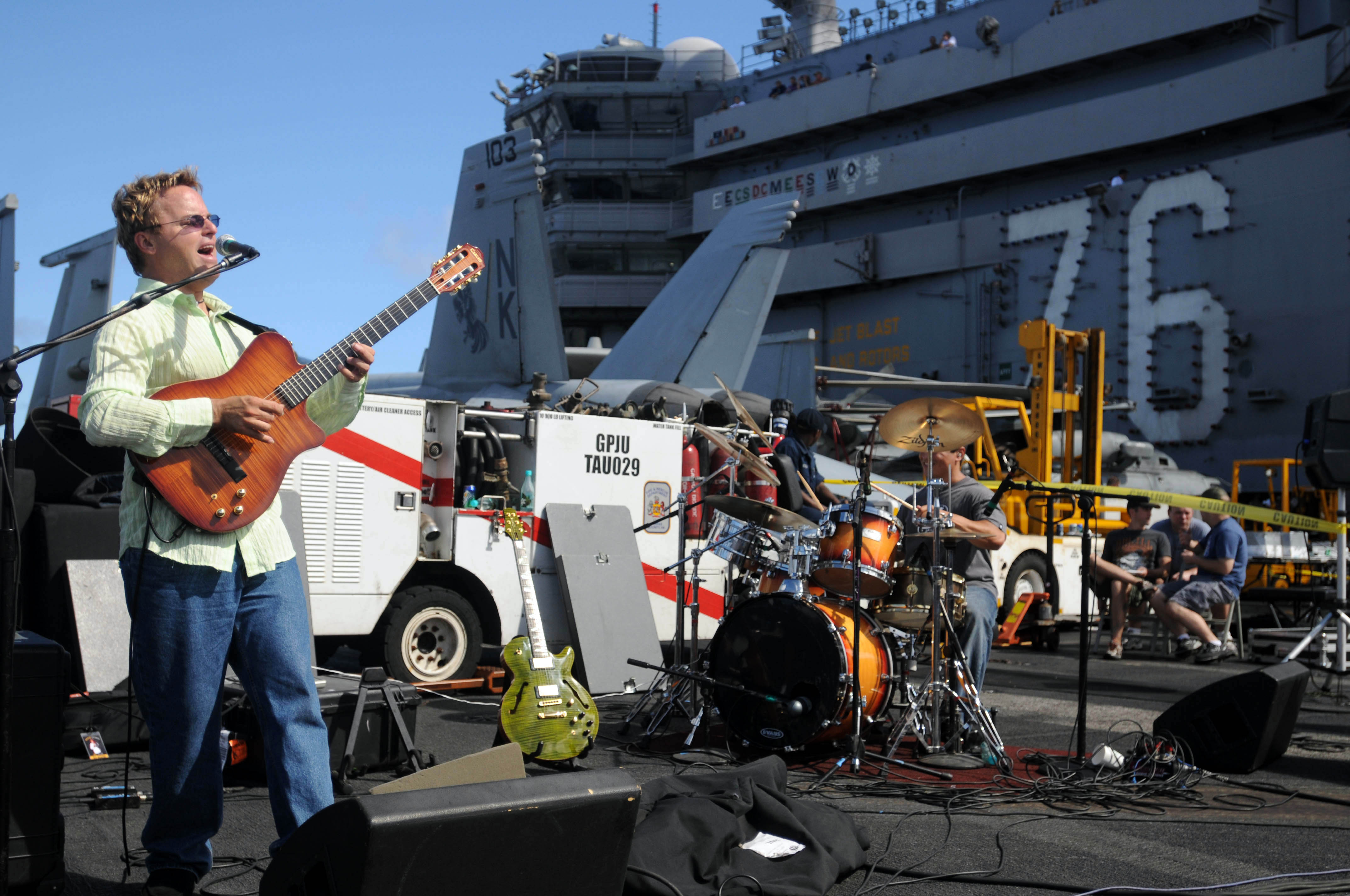 PACIFIC OCEAN (Oct. 16, 2009) Sailors and Tiger Cruise participants listen to a jazz concert with Steve Oliver on the flight deck aboard the aircraft carrier USS Ronald Reagan (CVN 76) during a steel beach picnic. Tiger Cruises provide an opportunity for family and friends of Sailors to share the experience of being underway on a Navy ship. The Ronald Reagan Carrier Strike Group is on a routine deployment operating in the U.S. 3rd Fleet area of responsibility. (U.S. Navy photo by Mass Communication Specialist Seaman Oliver Cole/Released)